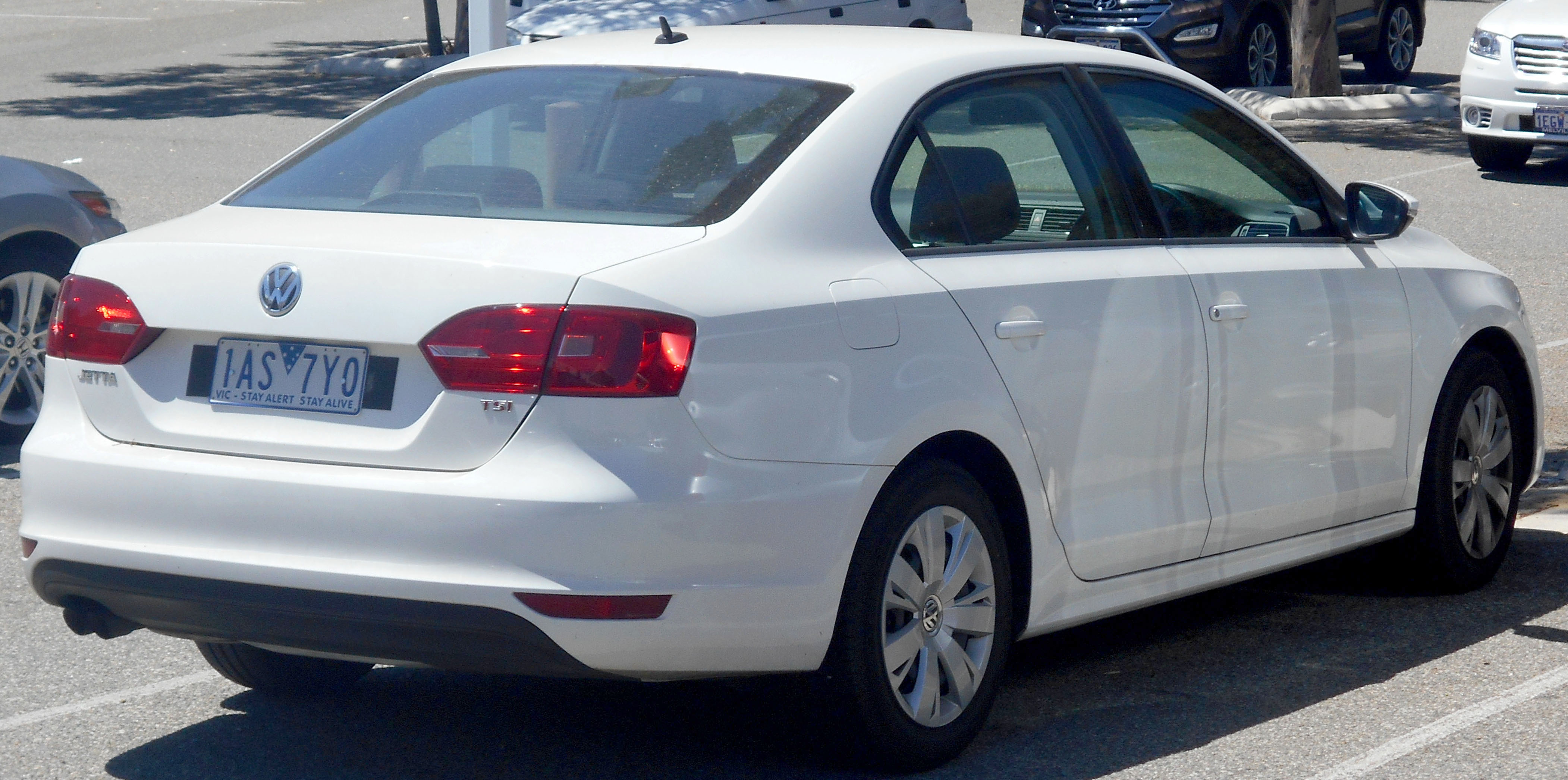 2014 Volkswagen Jetta (1B MY14) 118TSI sedan. Photographed in Winthrop, Western Australia Australia. Vehicle registration enquiry resultsJurisdictionVictoriaRegistration1AS7YOChassis codeWVWZZZ16ZDM074965Engine codeCTH054694Compliance date2014-03Year of manufacture2014